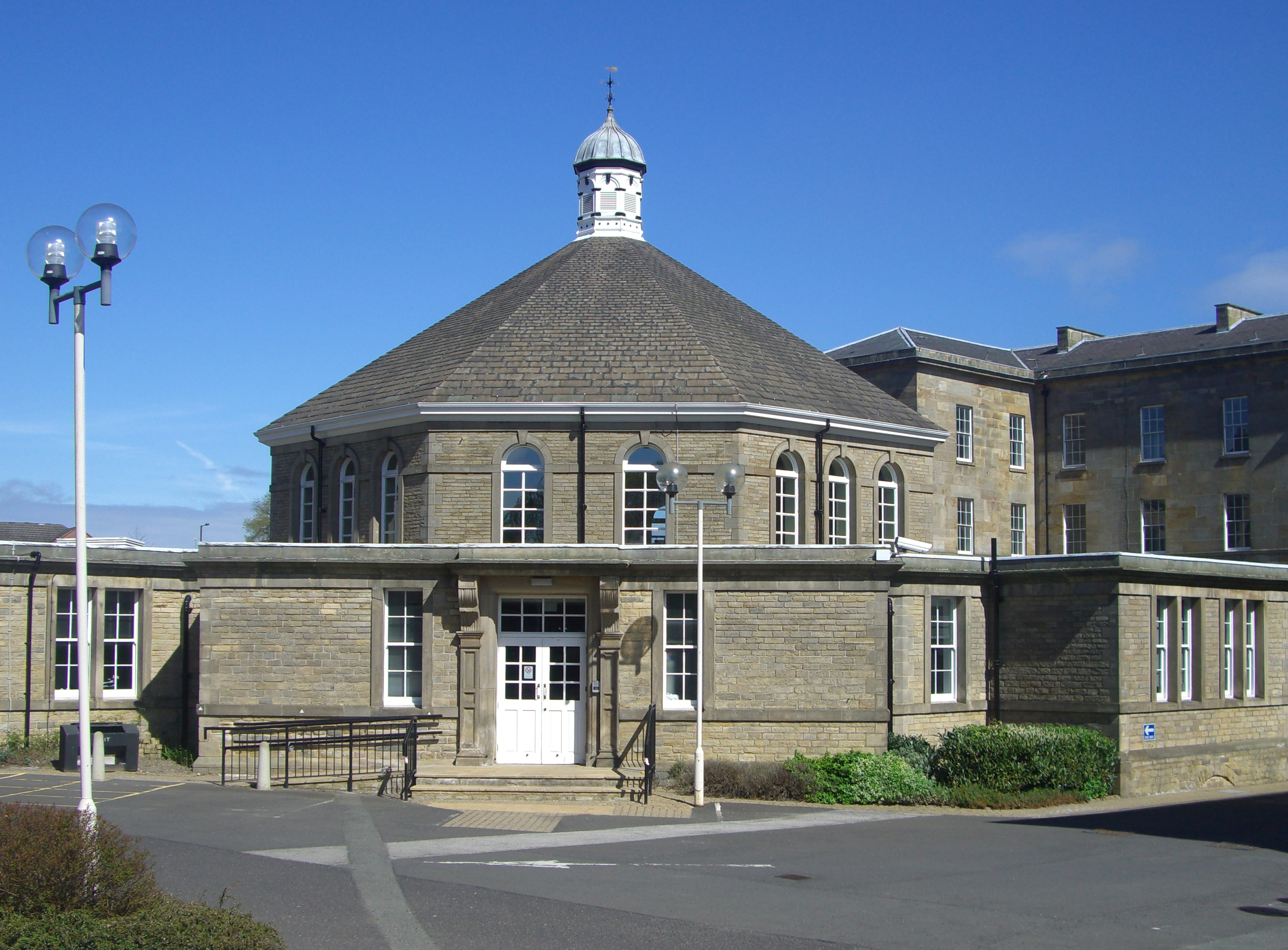 The Roundhouse built in 1884 in Sheffield, England. It was part of the former Royal Infirmary and served as an operating theatre. This Grade II listed building now serves as the canteen for the whole Heritage Park site.